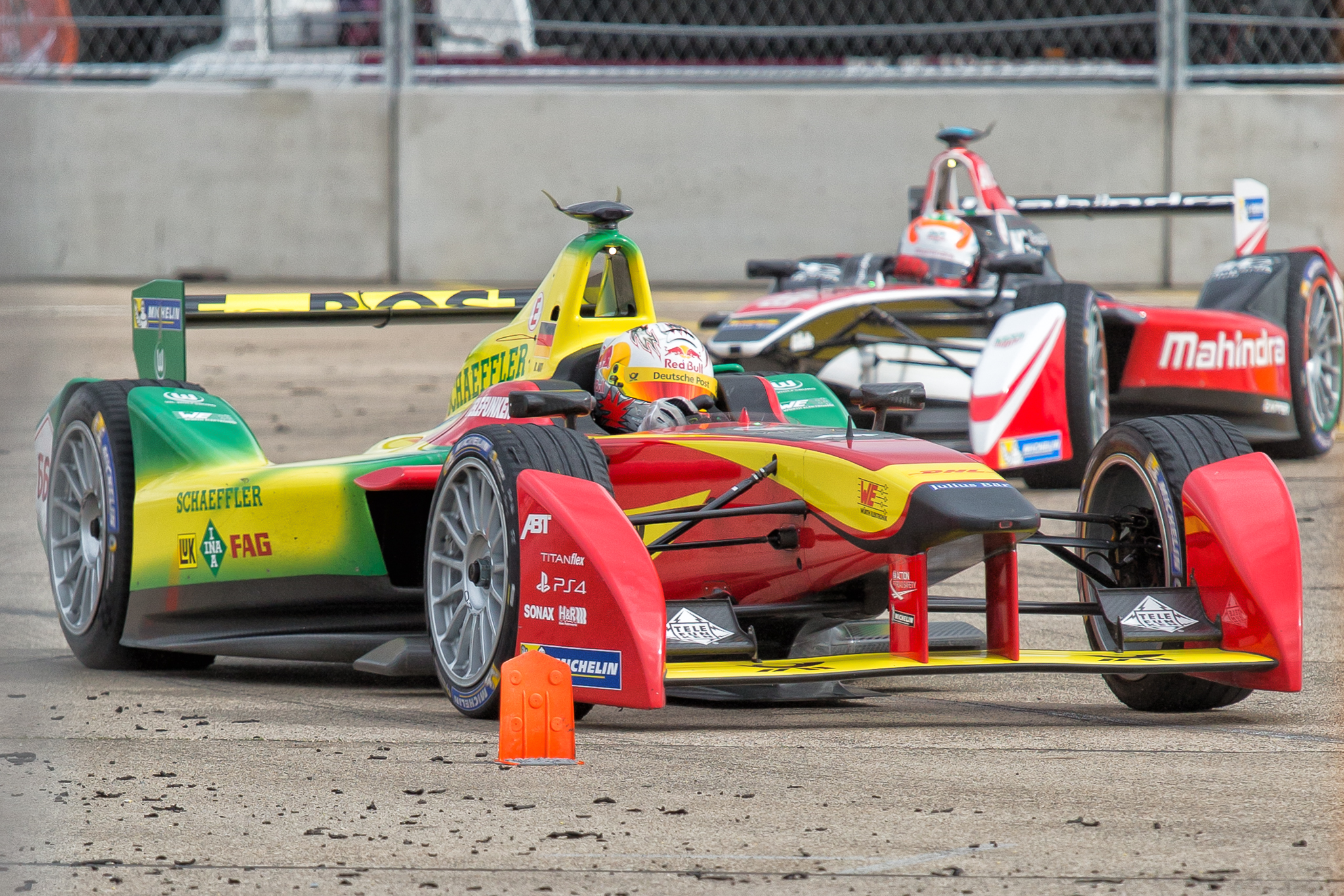 Daniel Abt during the formula E race in Berlin Tempelhof, 2015.